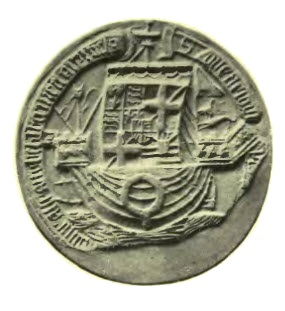 Seal of Arthur Plantagenet as Vice-Admiral of England, Ireland and Aquitaine. 1525-1542 Legend: " .........admiralli.anglie.hibernie.et.acquitta."